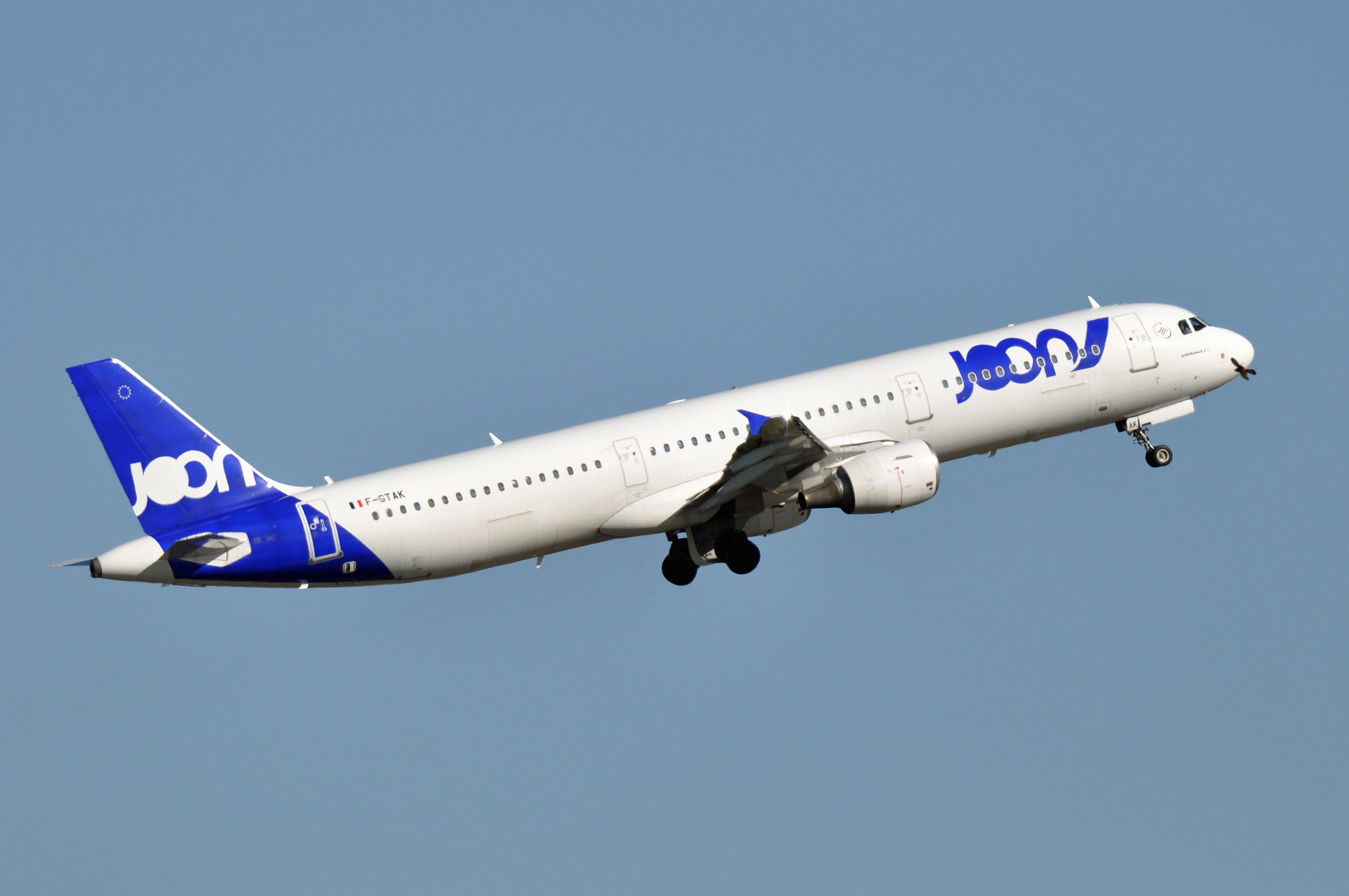 MSN 1658 A321-211 / A321 / A321-200 JOON CDG AIRPORT EX AIR FRANCE AS F-GTAK ONE TIME IN THIS PLANE IN 2003 LIN-CDG